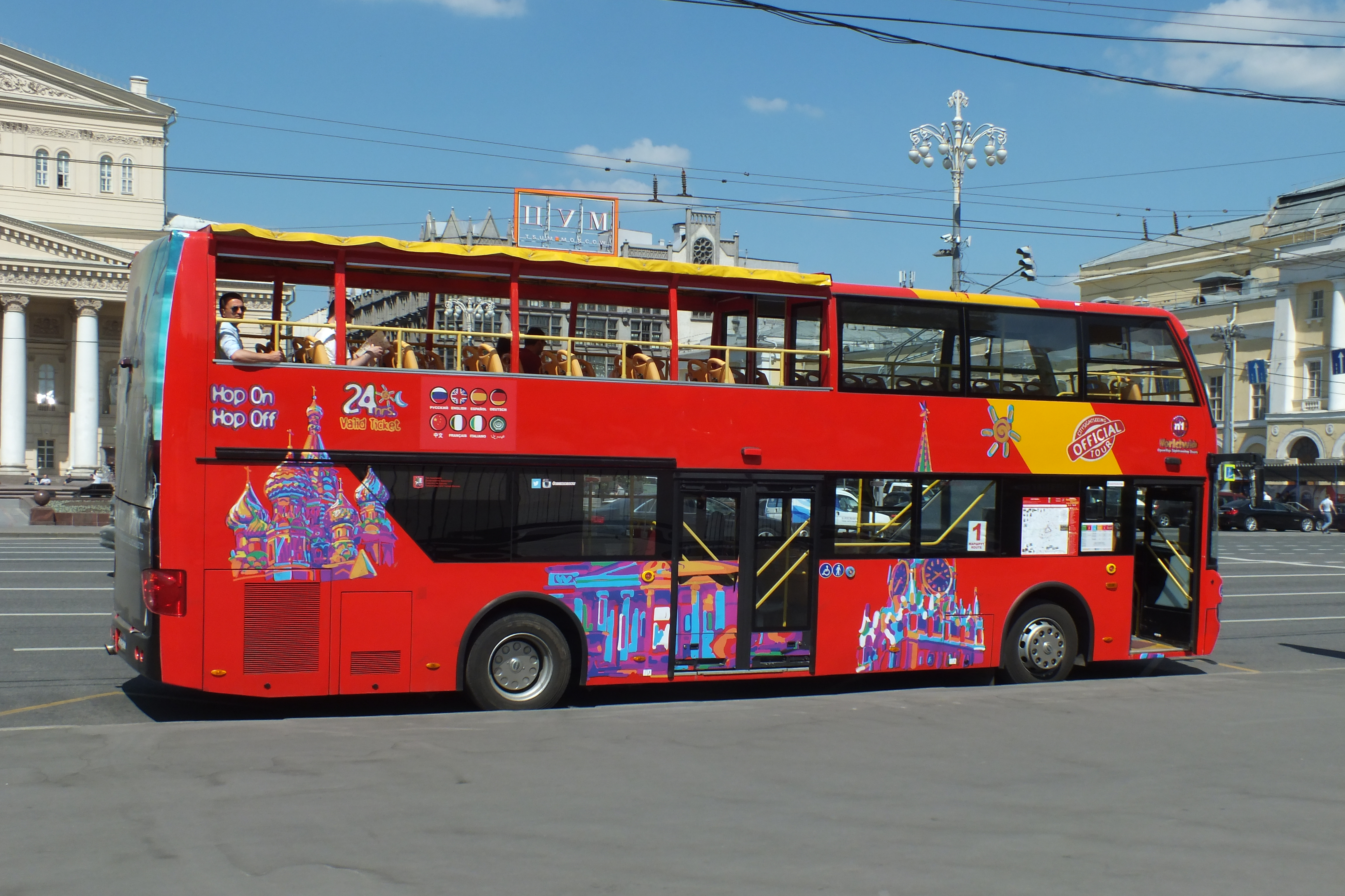 Double-decker bus in Moscow near Theatre Square